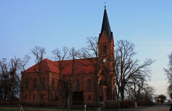 Neuküstrinchen, Church